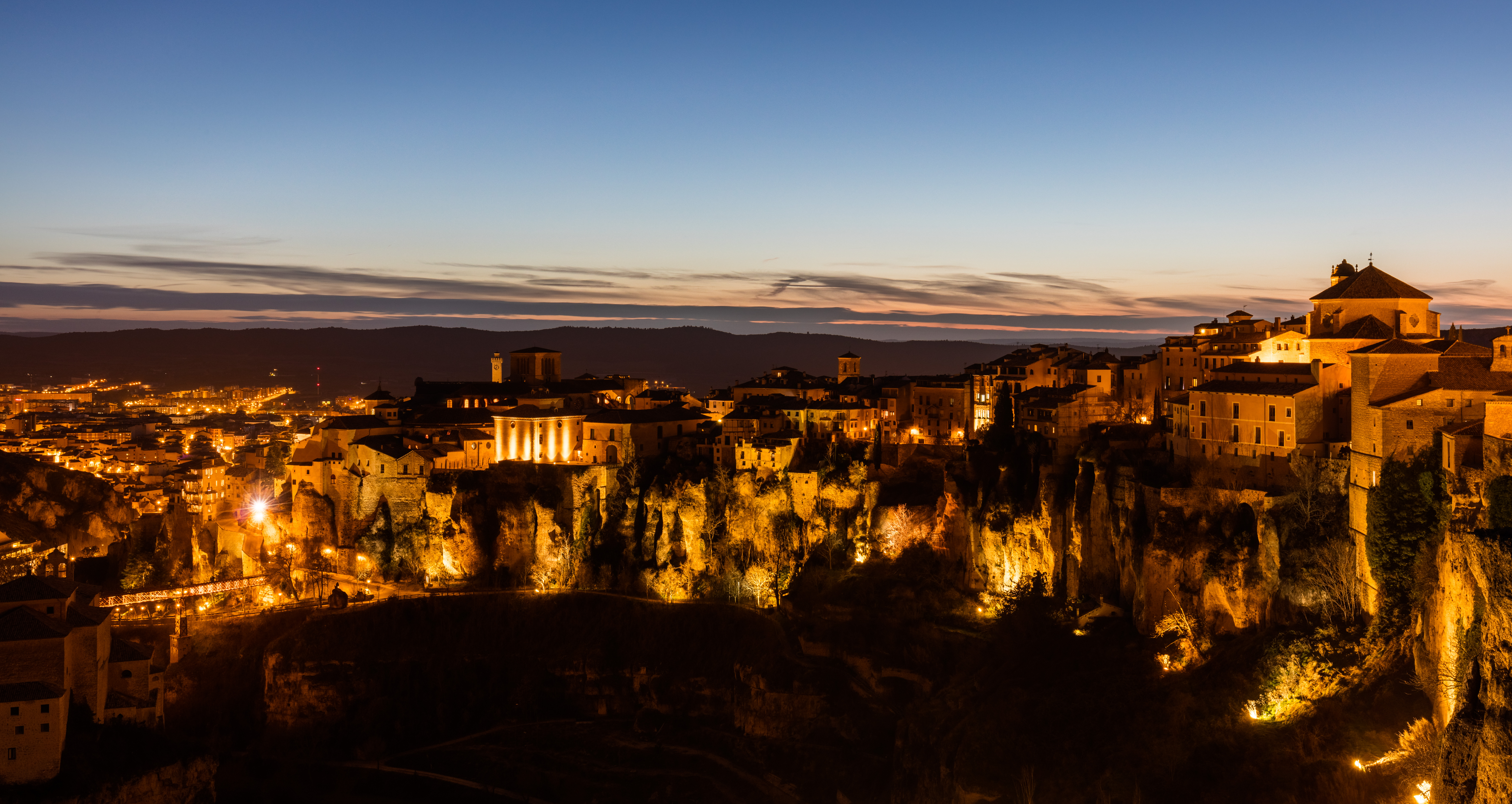 Casas colgadas, Cuenca, Spain